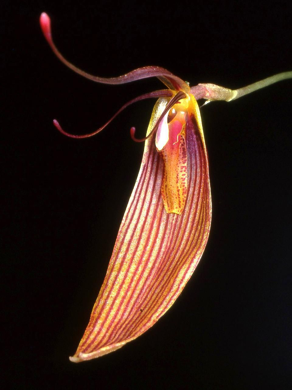 Restrepia antennifera - flower